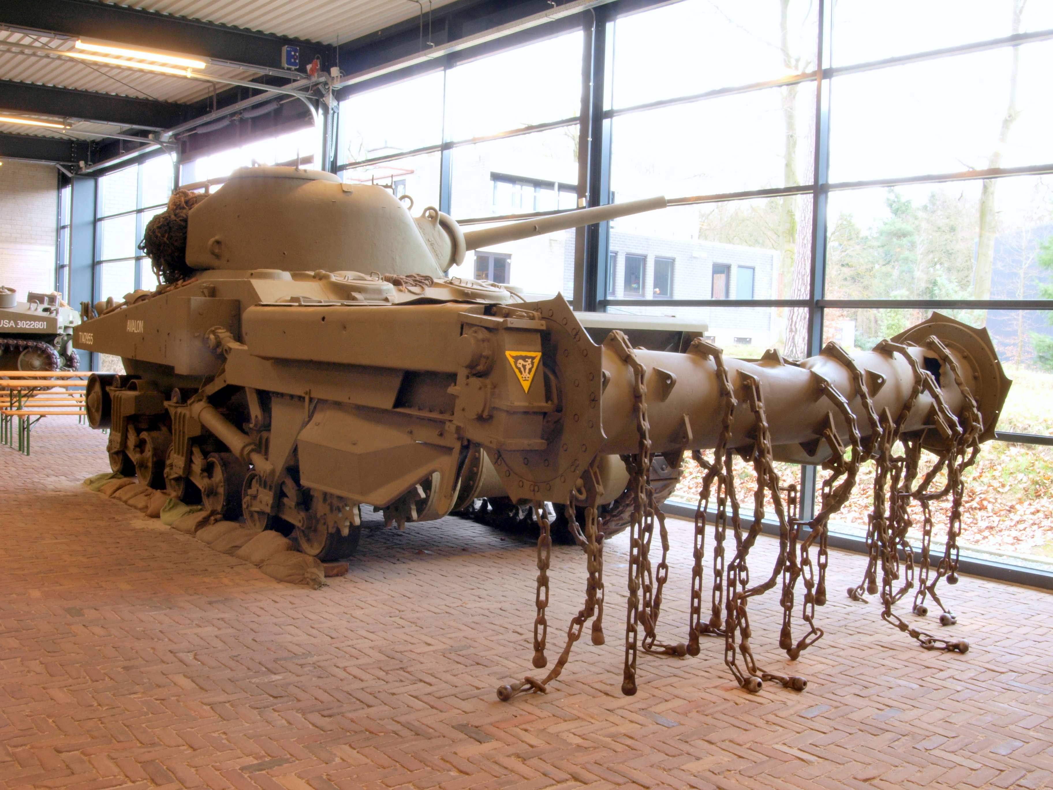 Photographed at the Marshallmuseum - Liberty Park - Oorlogsmuseum Overloon, The Netherlands, last used in the battle of Broekhuizen.